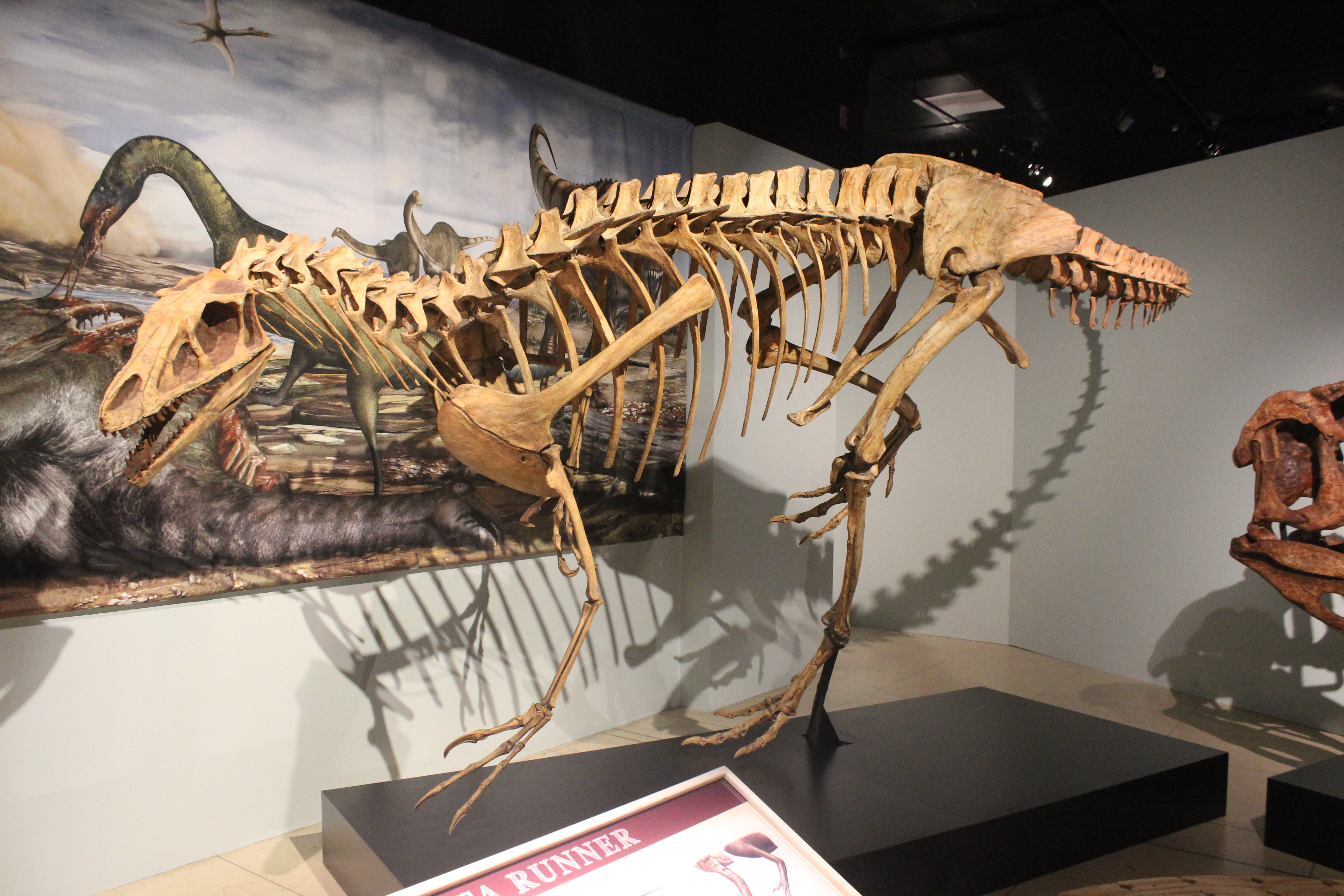 Taken at the National Geographic Museum Spinosaurus Exhibit. Photo by